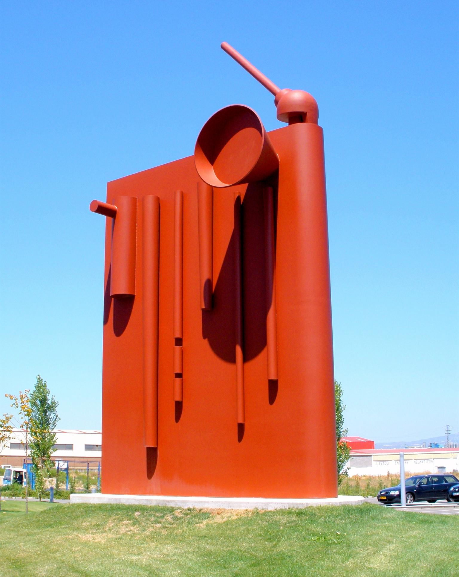 'Calibres, Book of Tools' (2006), obra de Miquel Navarro, en el Museo Würth La Rioja (Agoncillo, La Rioja, España)